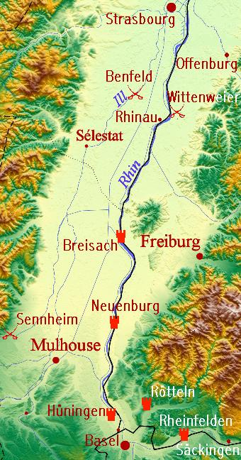 Siege of Breisach 1638. -battle locations and several other fortresses and cities.